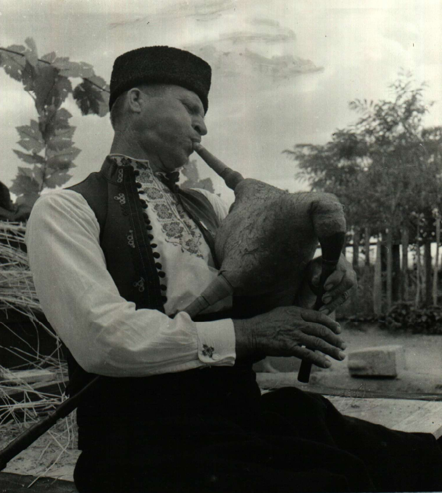 Gaida from Bulgaria